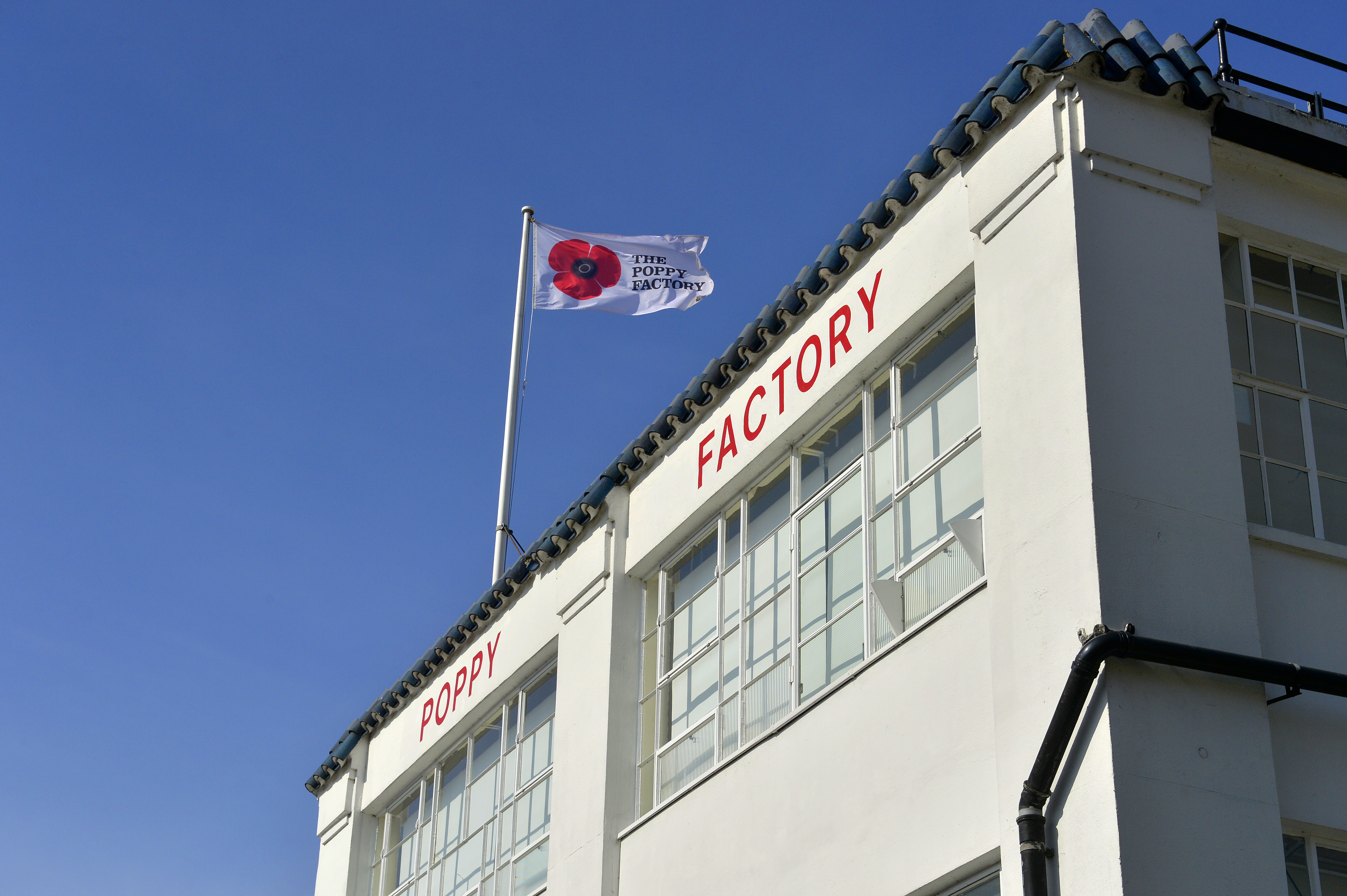 A picture of The Poppy Factory's manufacturing premises in Richmond, London. This part of the factory was completed in 1936.